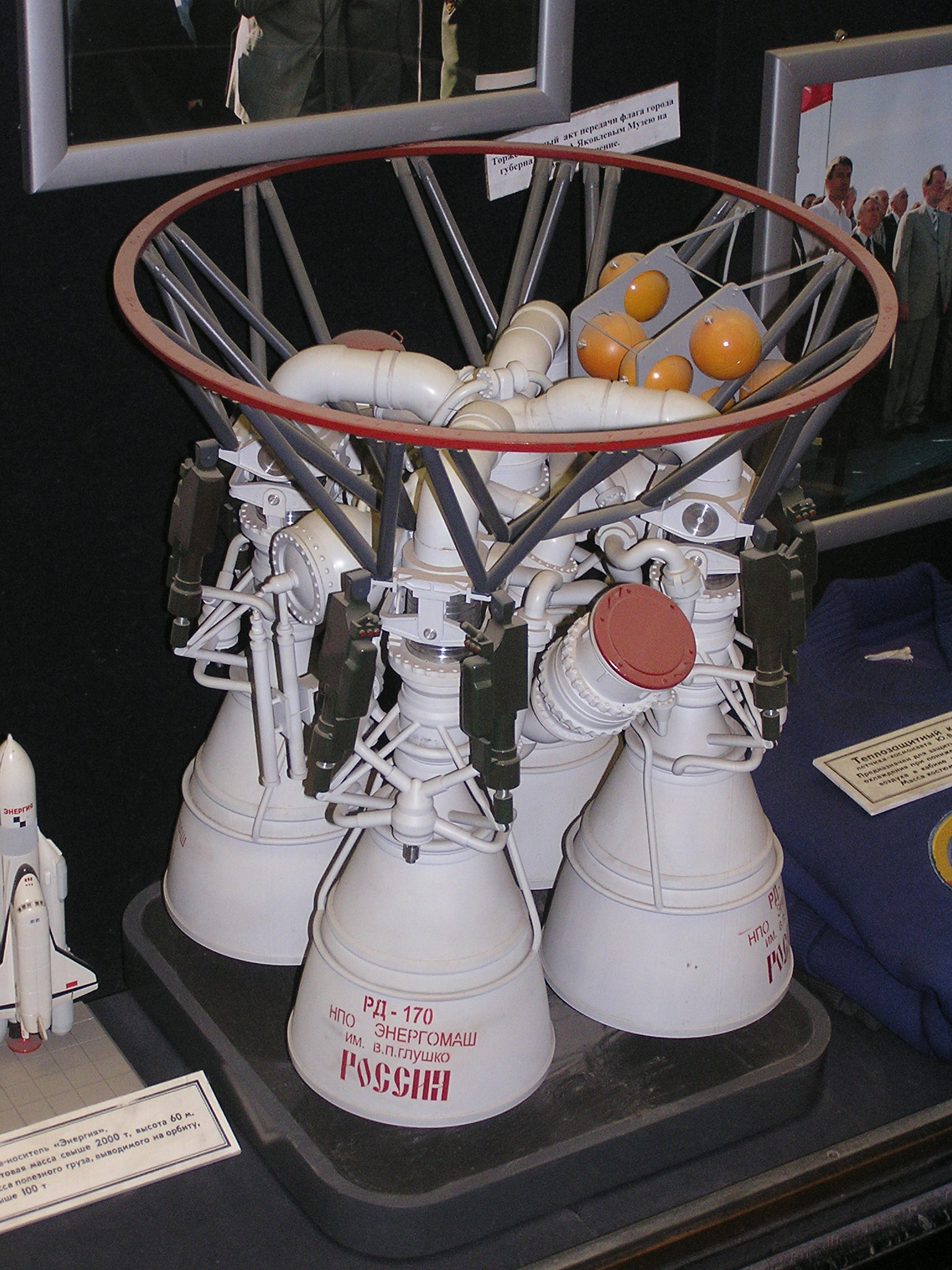 Museum of Space and Missile Technology (Saint Petersburg). RD-170 rocket engine.